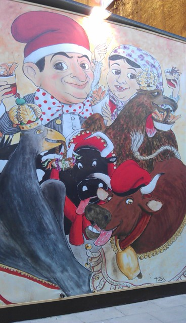 El Cucut i la Xurruca (Couple of Olot) and ohter figures of the town, Olot Spain, large poster at Olot of the caricaturist Tavi Algueró, Olot, 2015; El Cucut i la Xurruca are the figures of the quarter Sant Ferriol of Olot